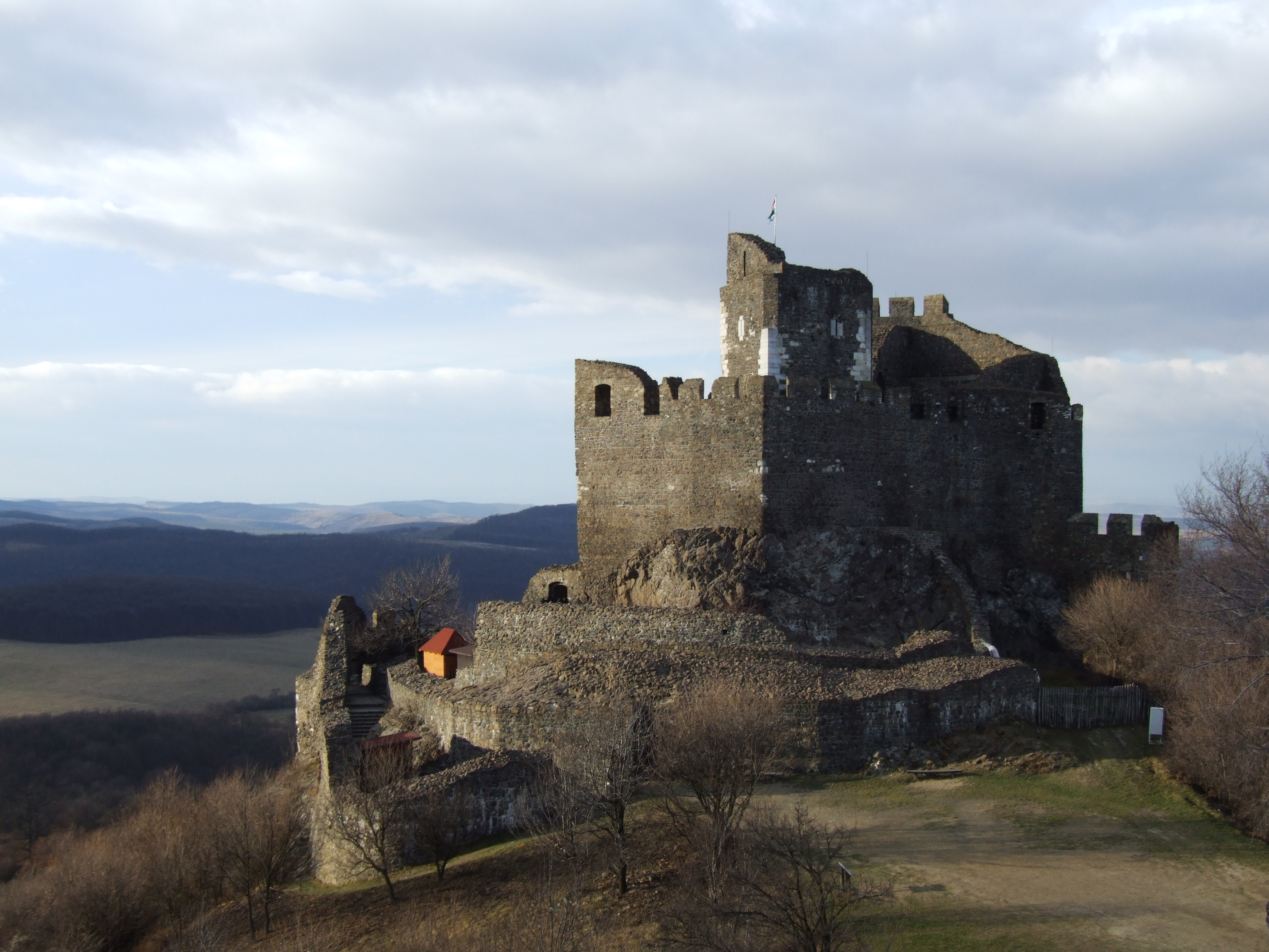 The view of castle Hollókő in Hungary form the near-by hill. This is a photo of a monument in Hungary, Identifier: 6601